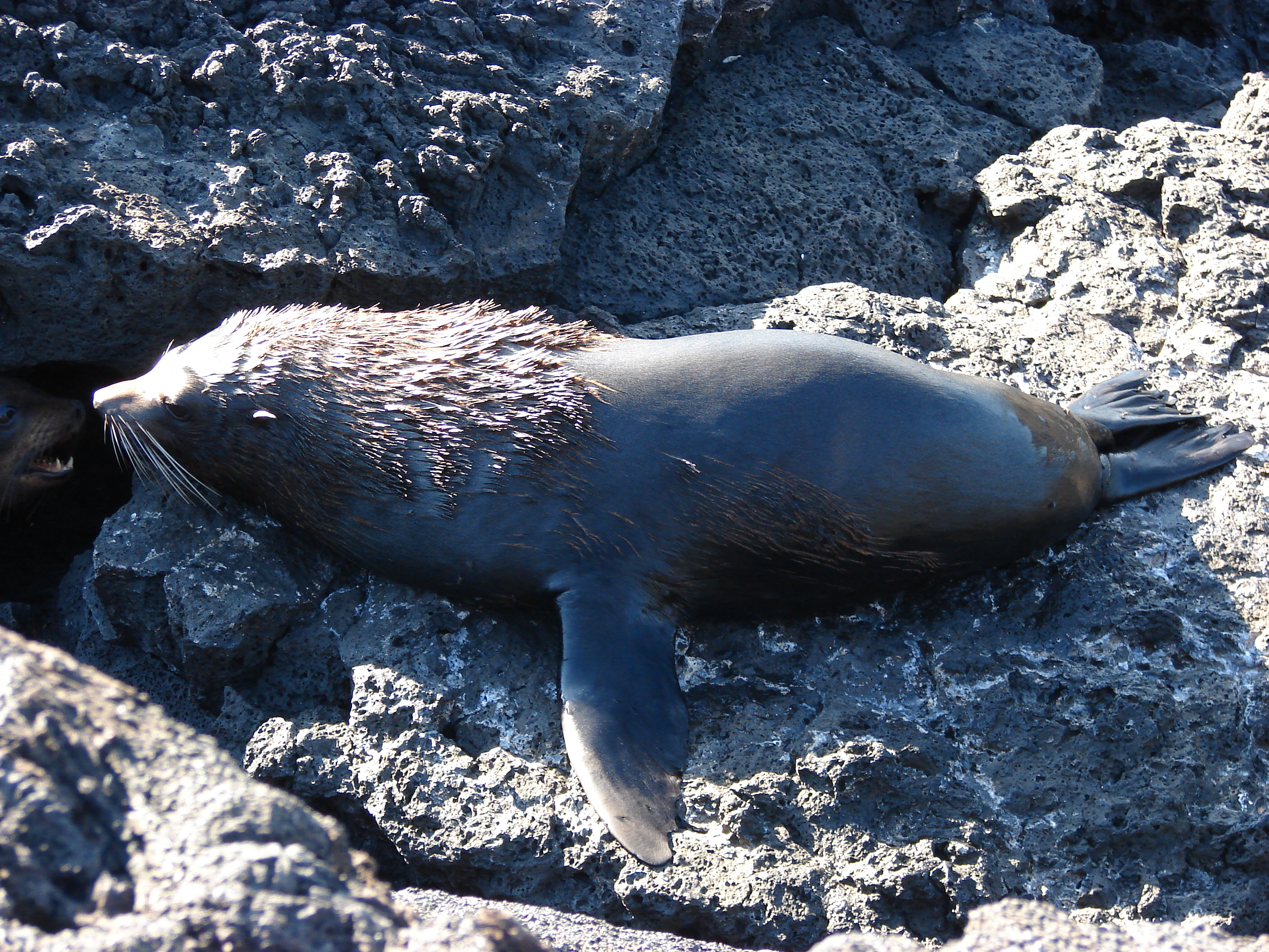 Galapagos Fur Seal